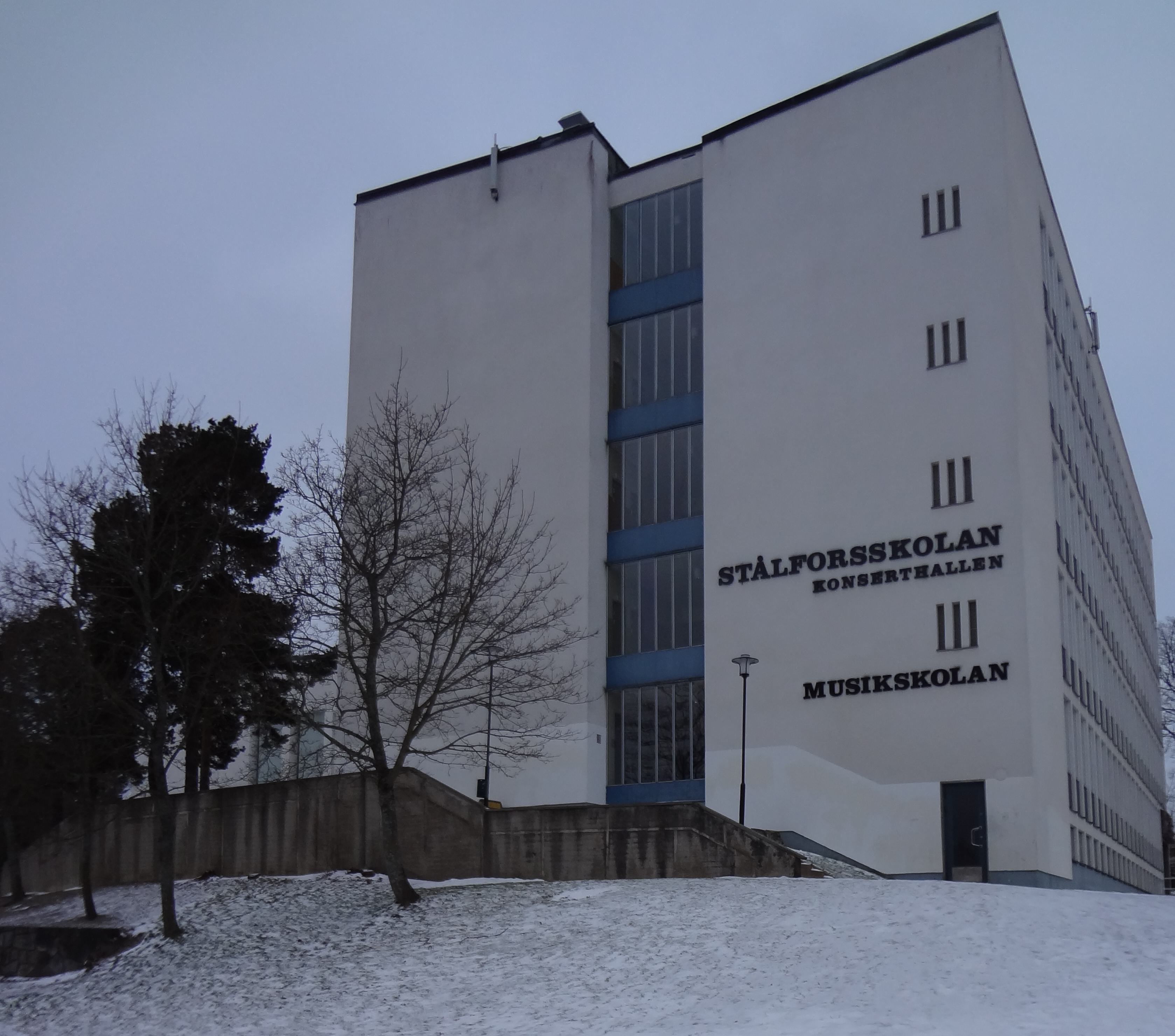 Stålforsskolans konserthall, a consert hall in Eskilstuna, Sweden.